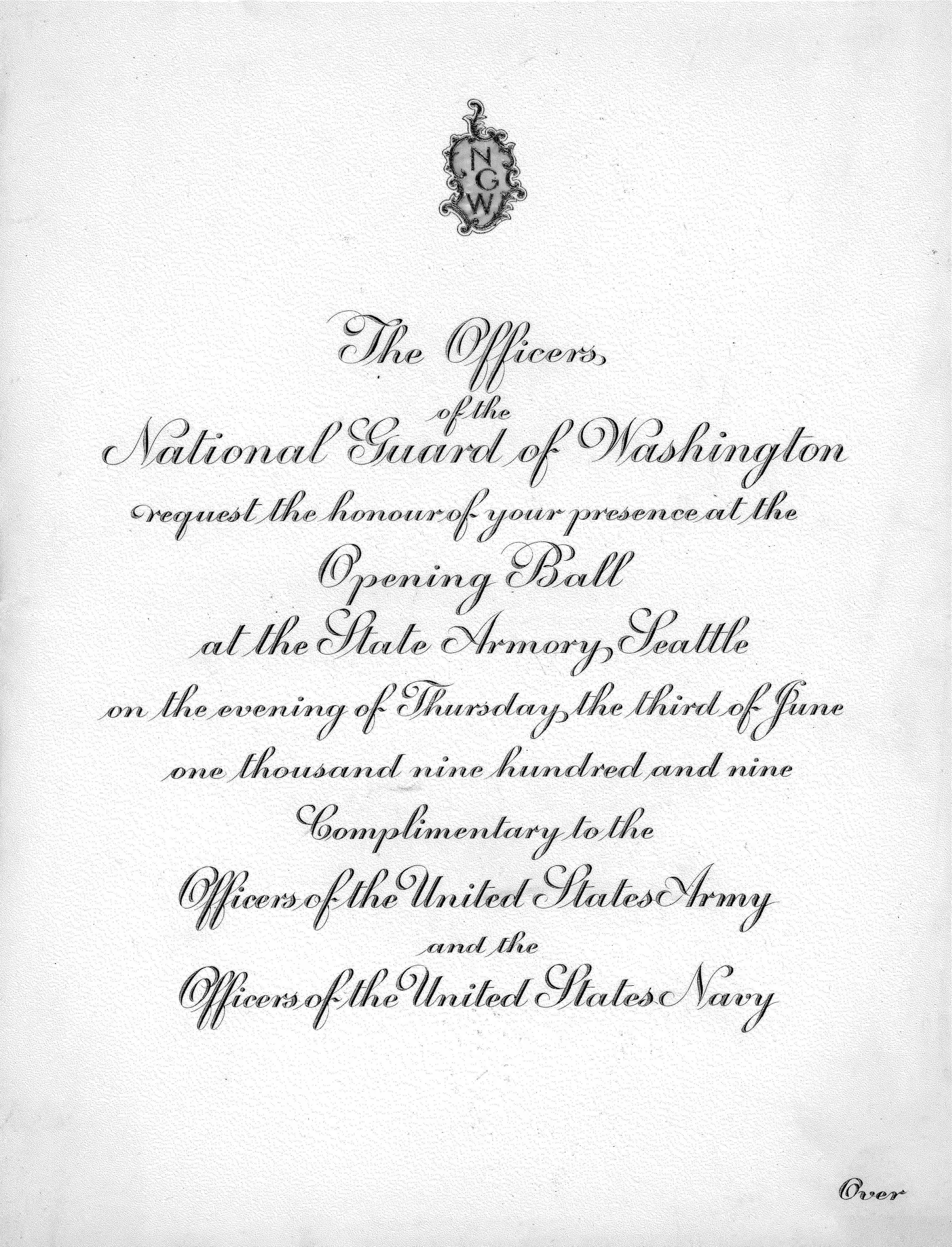 From the materials for the Alaska-Yukon-Pacific Exposition of 1909, held in Seattle.